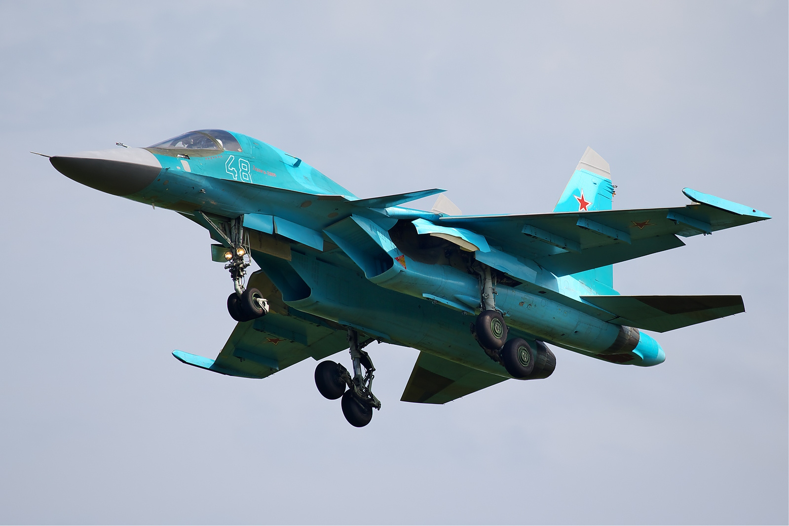 Russian Air Force Sukhoi Su-34